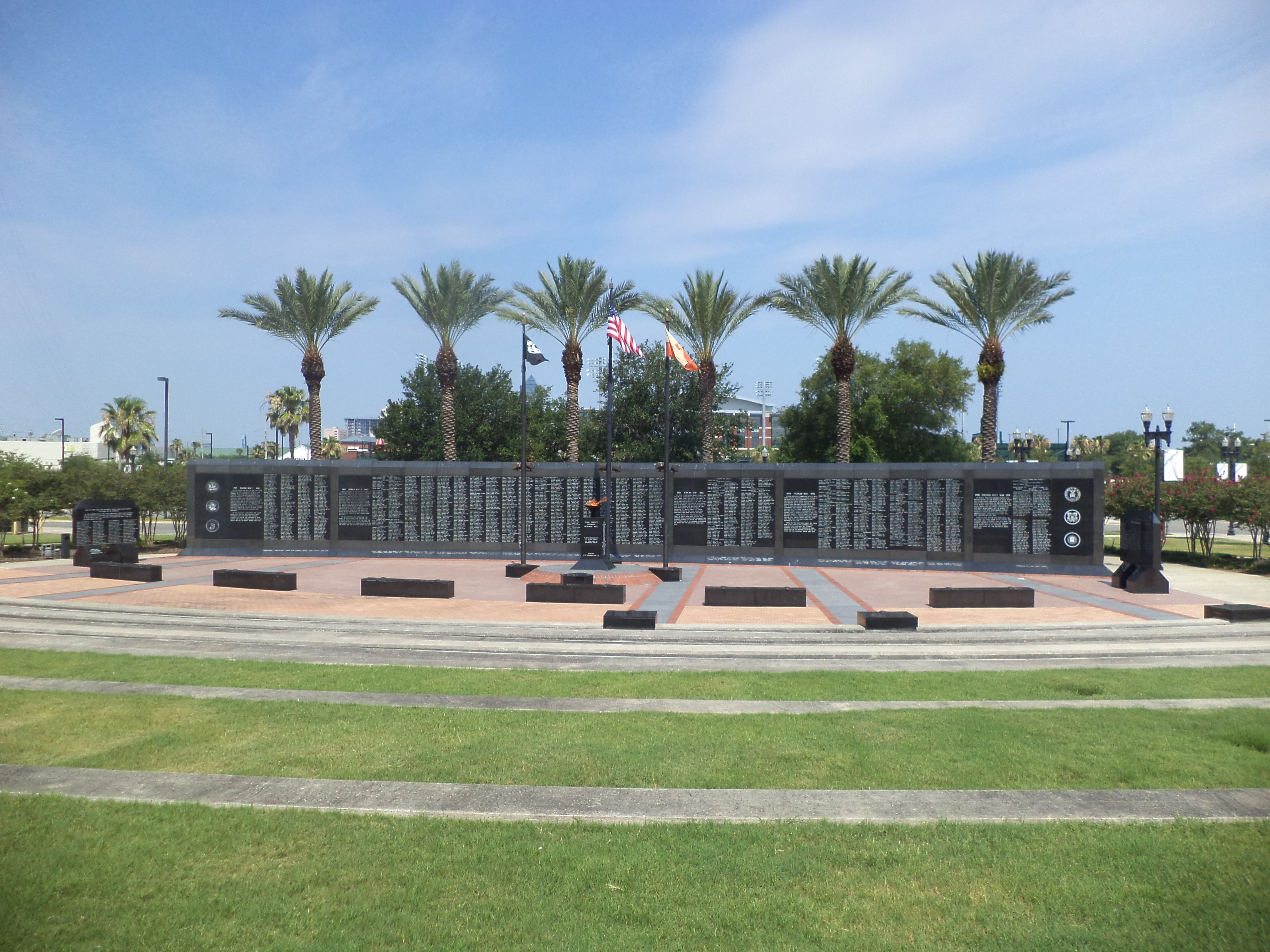 Duval County Veterans Memorial Wall